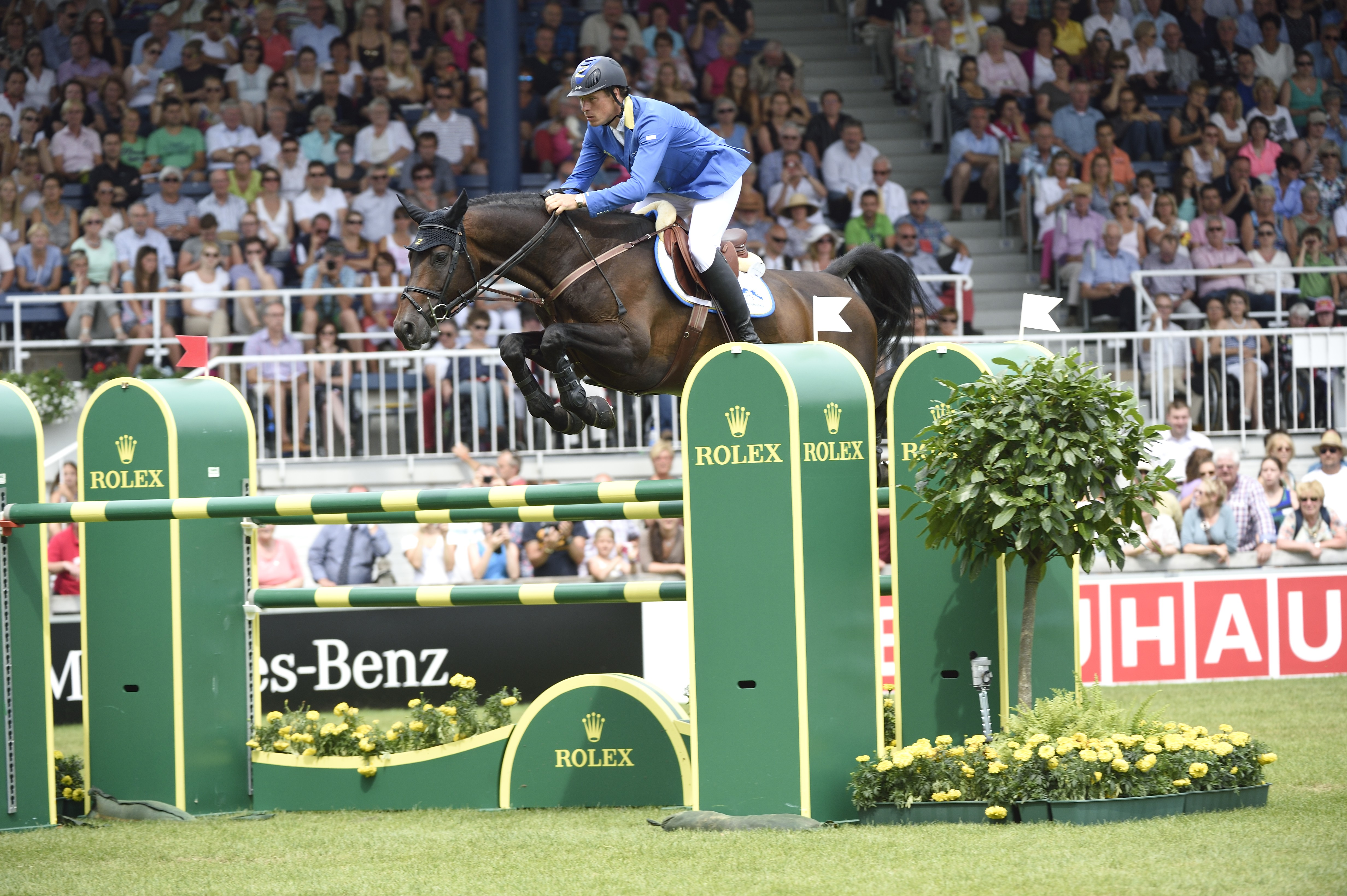 Christian Ahlmann riding Codex One, winner of the Rolex Grand Prix at CHIO Aachen 2014